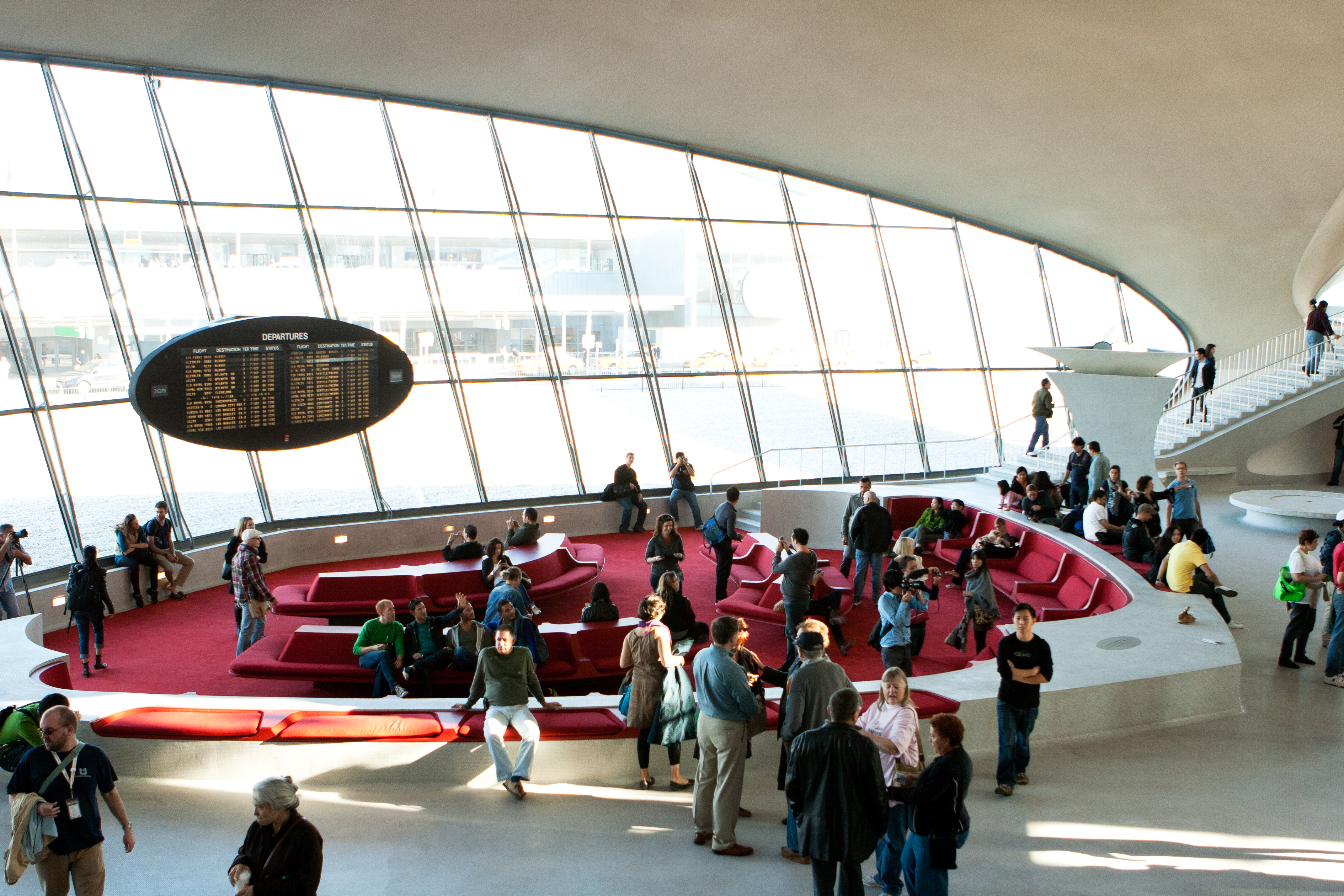 The historic TWA terminal at JFK. Open to the public on October 16, 2011.